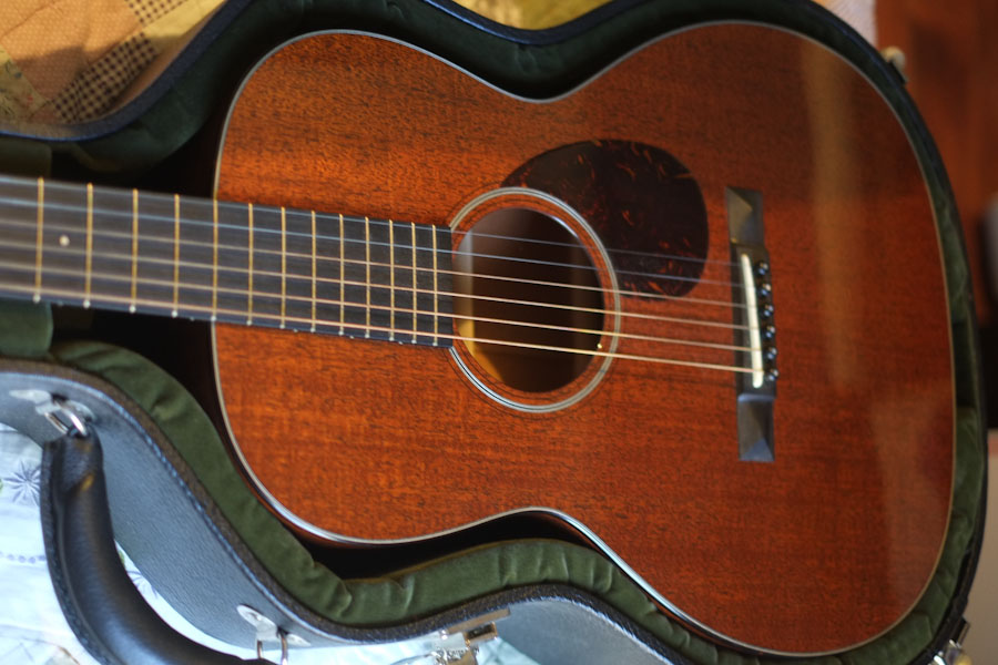 Collings 001M, 00-style 12-fret configuration